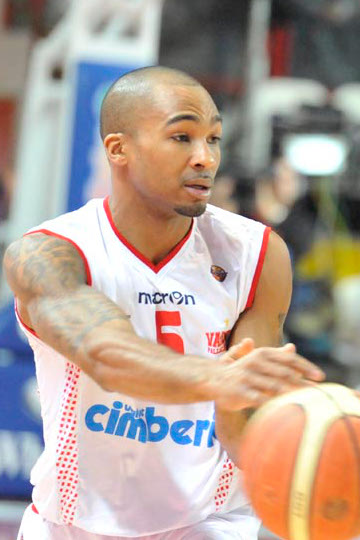 Basketball player from the U.S. Phil Goss playing for Pallacanestro Varese